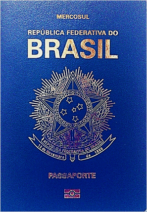 Cover of new Brazilian Passport since 2019